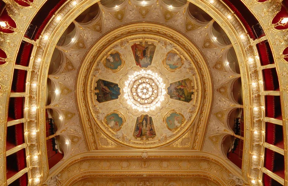 ceiling of the hall in Odessa Opera Theater